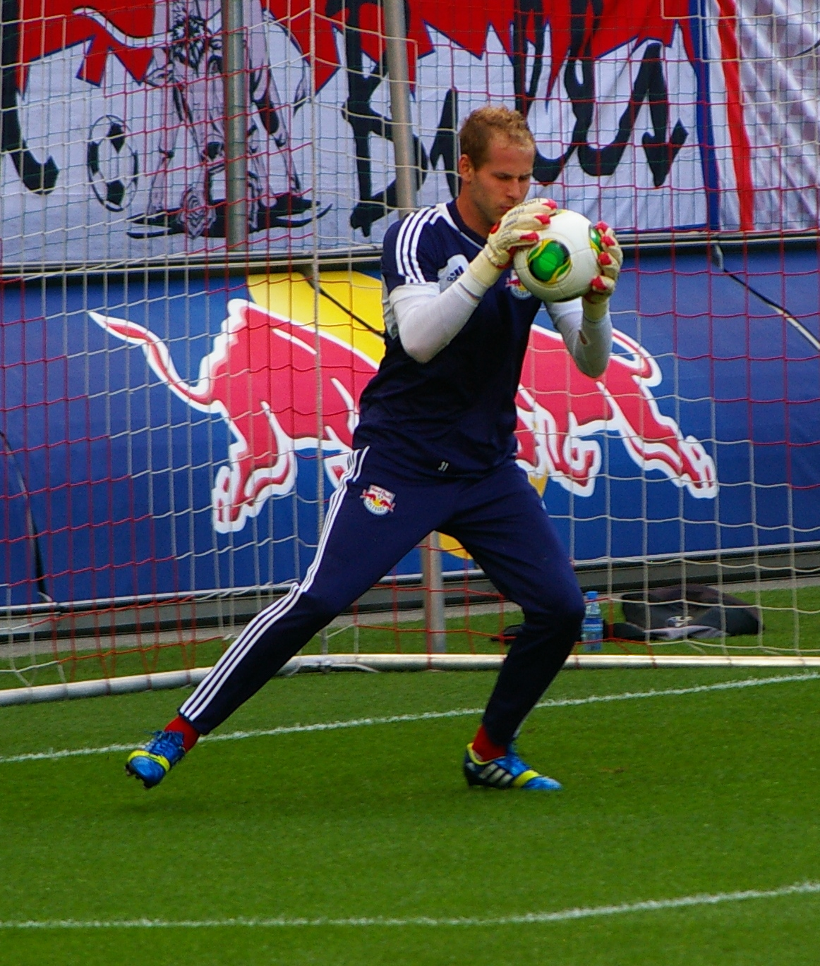 league match